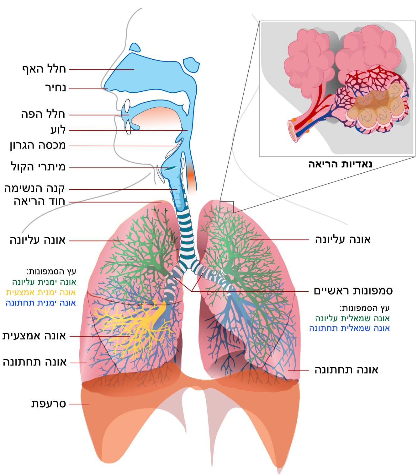 the respiratory system consists of the airways, the lungs, and the respiratory muscles that mediate the movement of air into and out of the body.